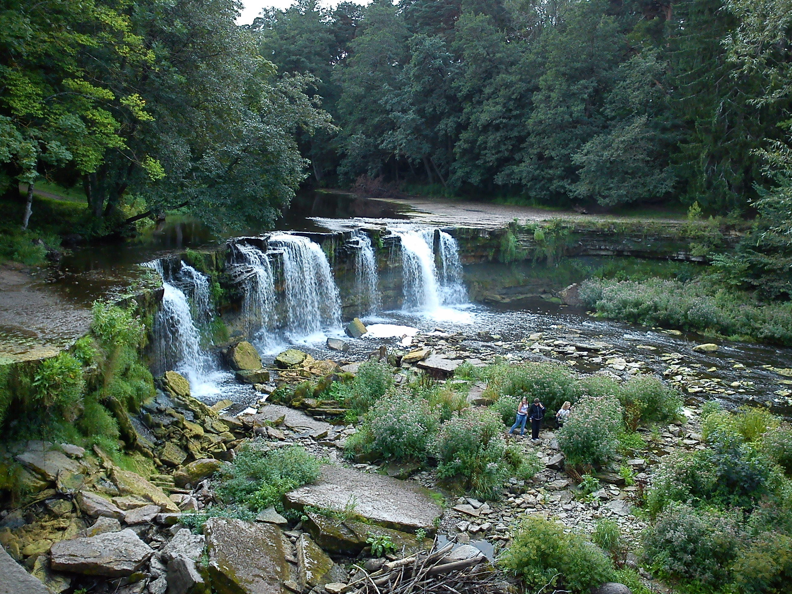 Keila waterfall